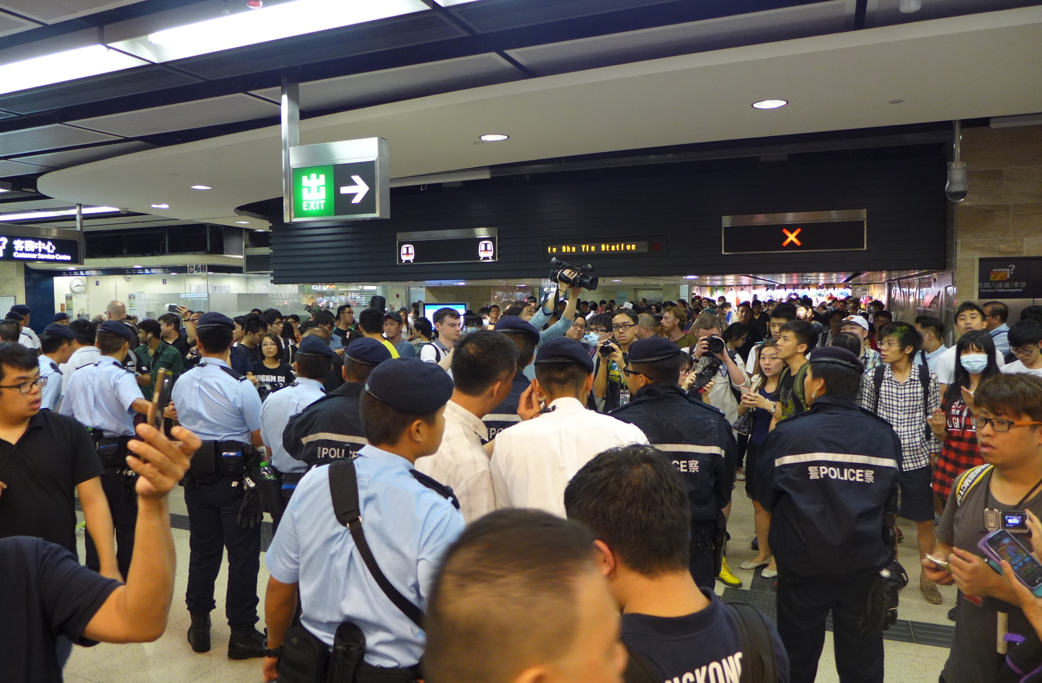 Shatin MTR Station Protest Police Force